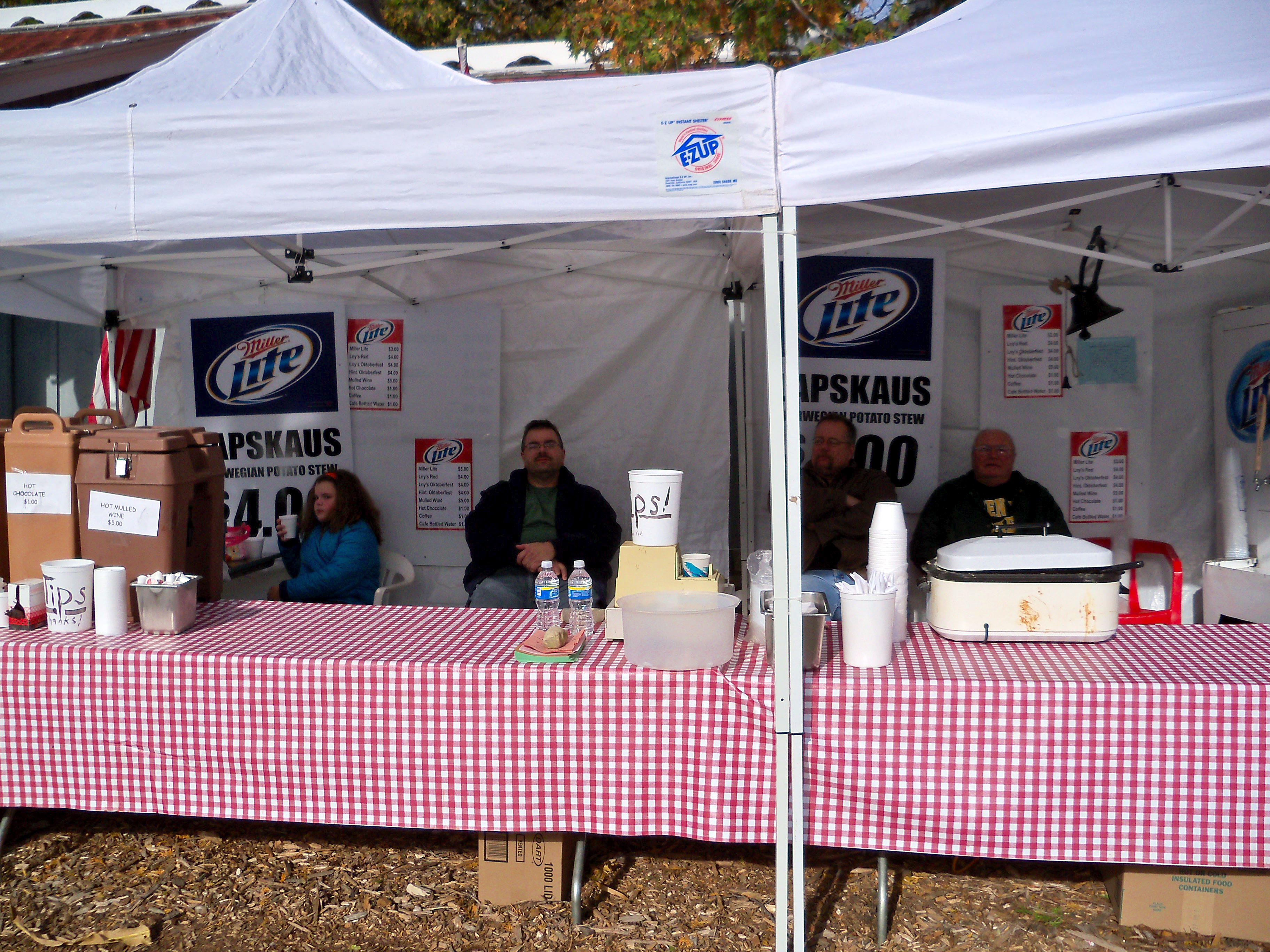 Solbjorg's Sister Bay Cafe Lapskaus Stand at Sister Bay's Fall Festival, October 16-18, 2009